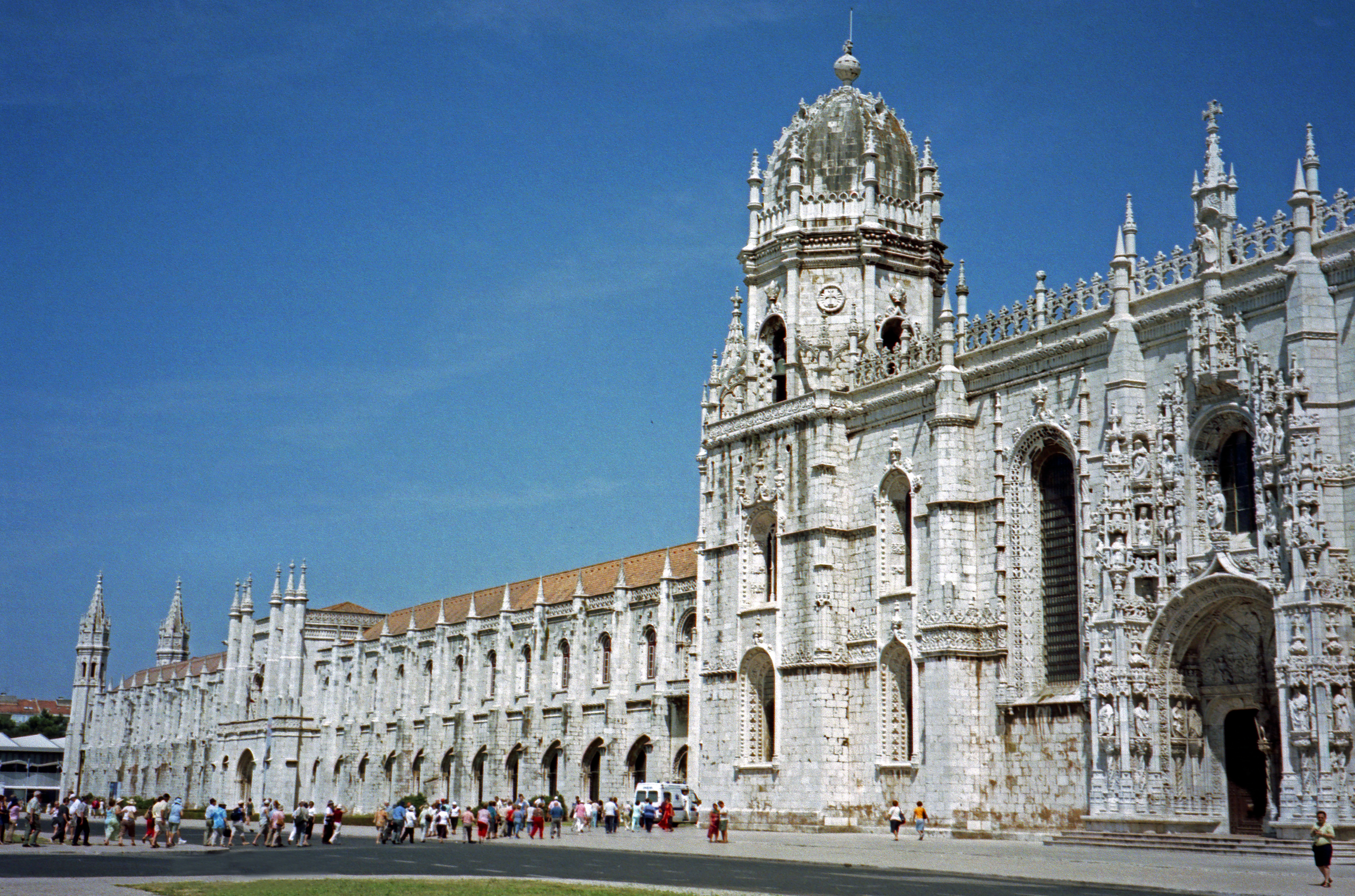 Monastery of Jeronimos was started in 1501 and was completed a century later. The monastery was built of limestone and has a façade more than 300 meters long. Lisbon, Portugal Considered the “jewel” of the Manueline style, Jeronimos includes architectural elements of the late Gothic and early Renaissance, adding to these Royal, Christian and natural symbology. It was the monks of the Order of St. Jeronimo who were chosen by D. Manuel I to occupy the monastery, with the goal of praying for the soul of the king and providing spiritual attention to sailors and navigators.